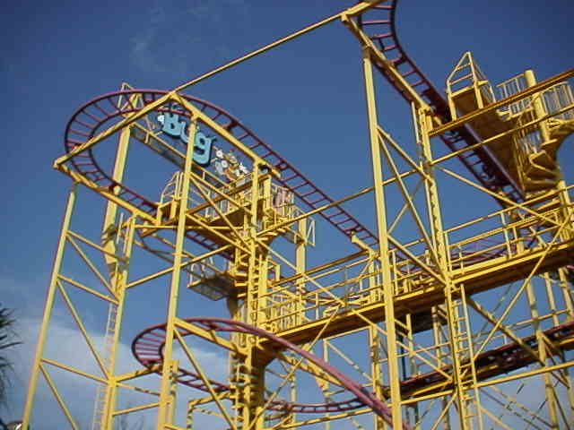 Picture by Michael Rivera (self) of Bug Out Roller Coaster at Wild Adventures, Valdosta, GA